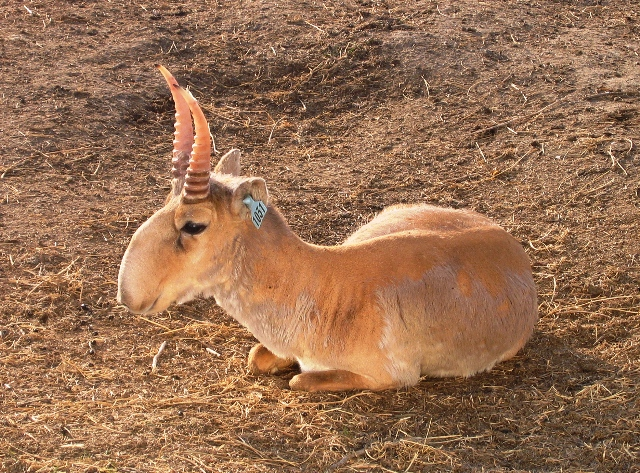 Saiga in the breeding center